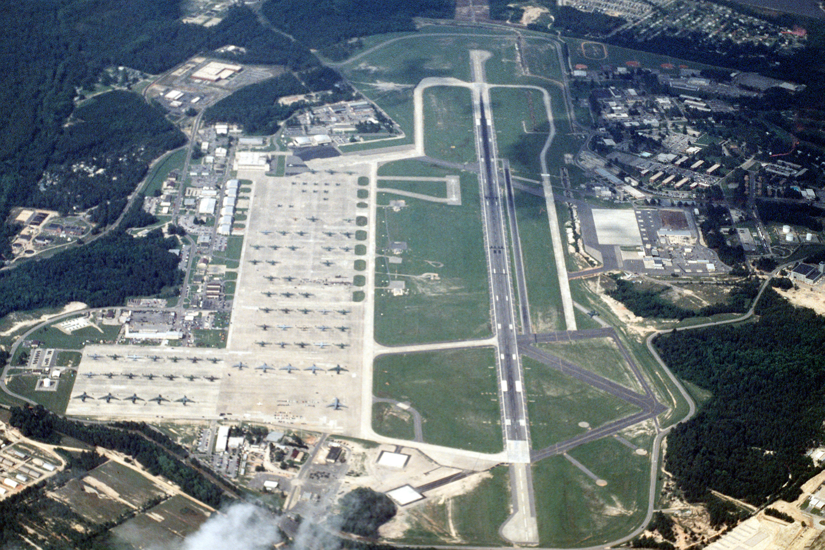 Aerial view of Pope Air Force Base on the opening day of RODEO 92. Location: POPE AIR FORCE BASE, NORTH CAROLINA (NC) UNITED STATES OF AMERICA (USA)